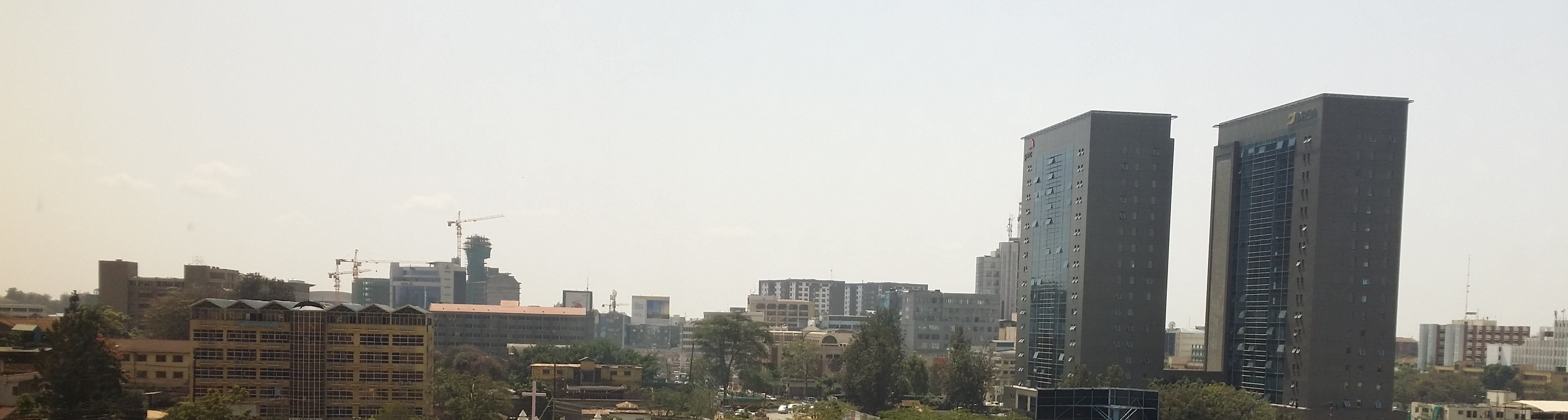 Westlands, Nairobi